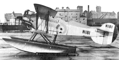 The Bristol Lucifer-engined Parnall Peto N181.